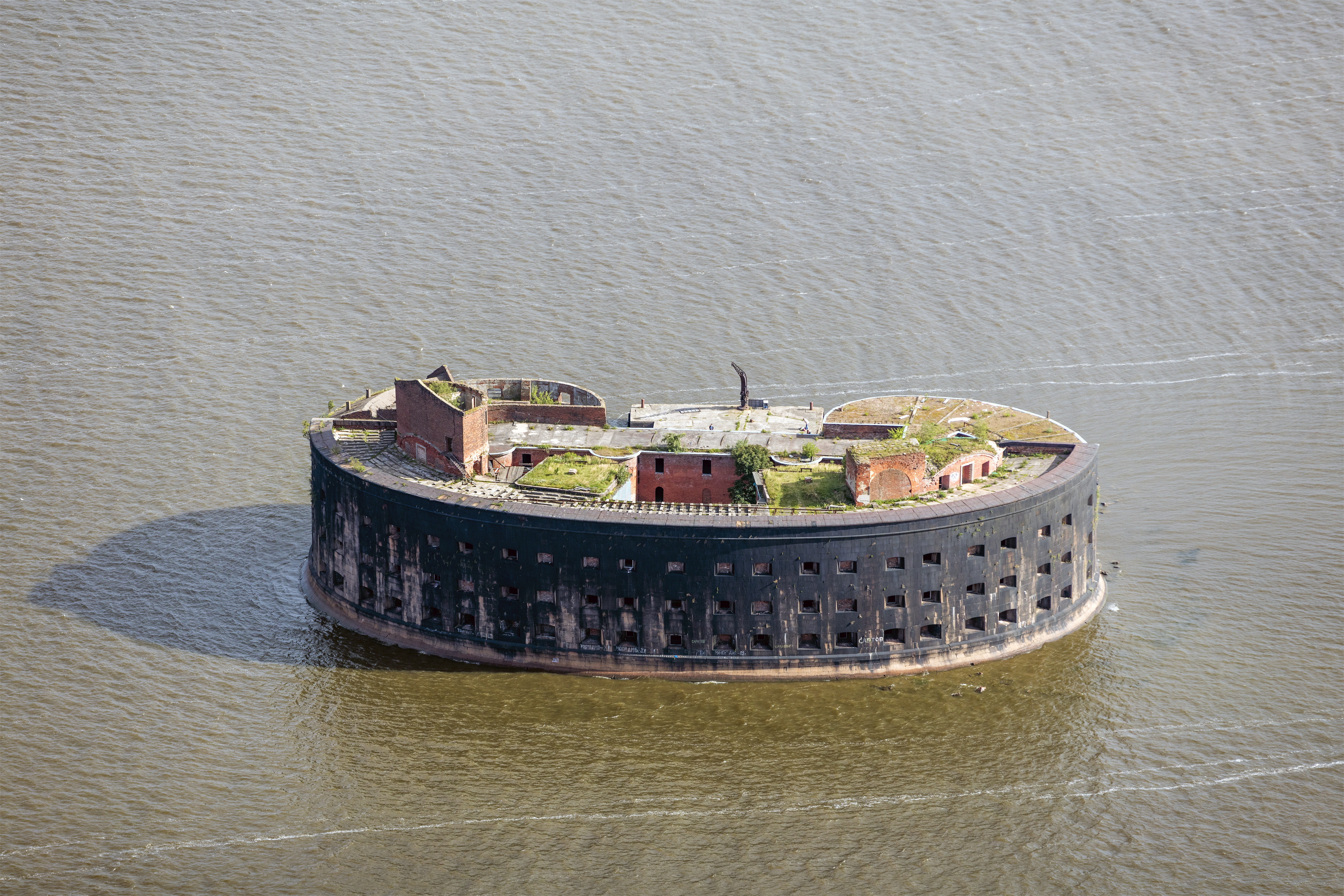 Fort Alexander I, one of the fortresses in or adjacent to Kronstadt, Saint Petersburg, Russia.